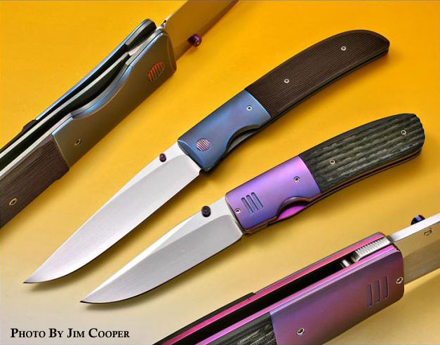 Photo of several Linerlock knives created by knifemaker Michael Walker. Other information Photo was commissioned by Michael Walker for his business. Photo was produced/taken by Jim Cooper.